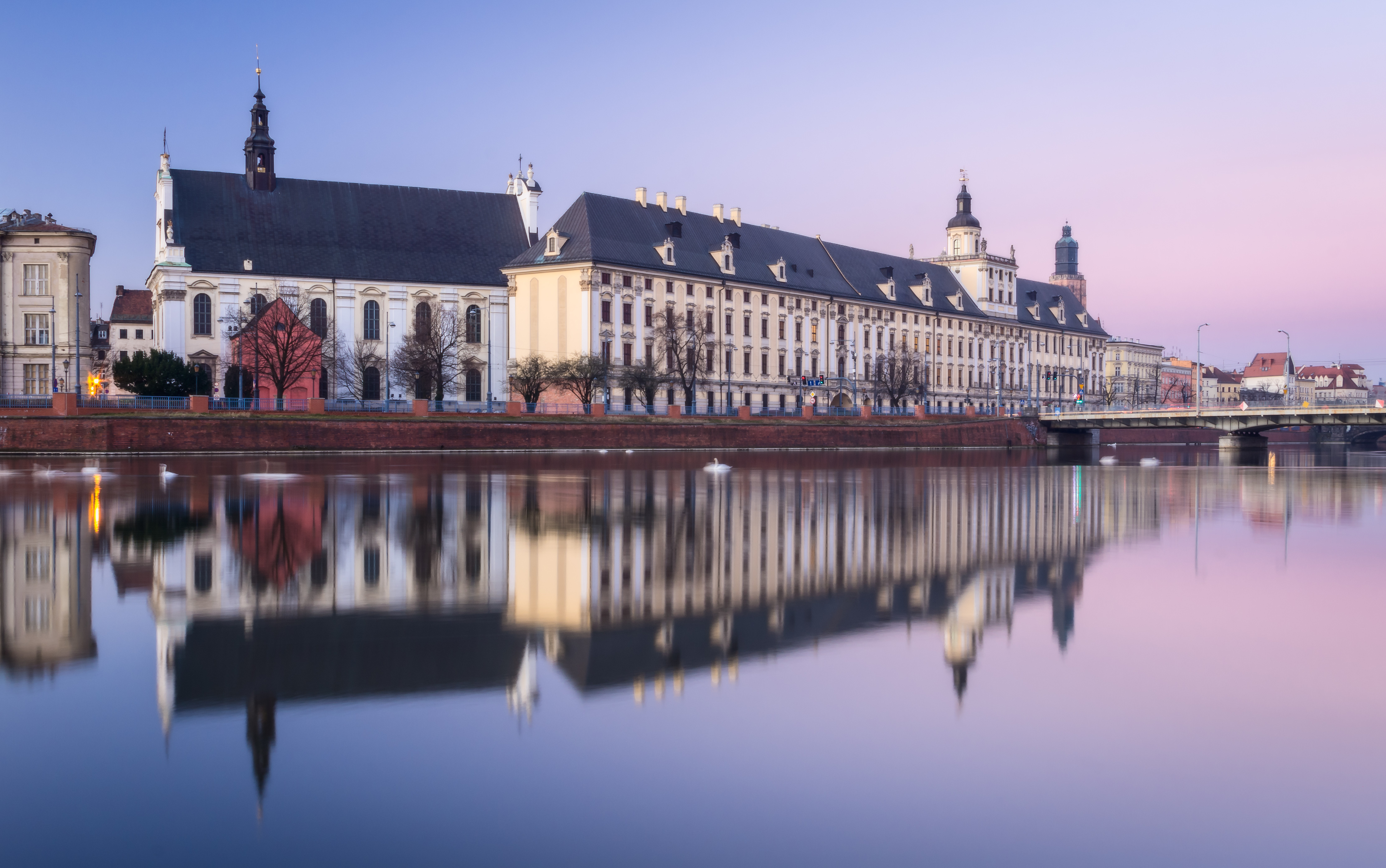 Wrocław, University of Wrocław, and the University Church on the left side